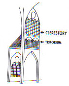 line art drawing of a clerestory.